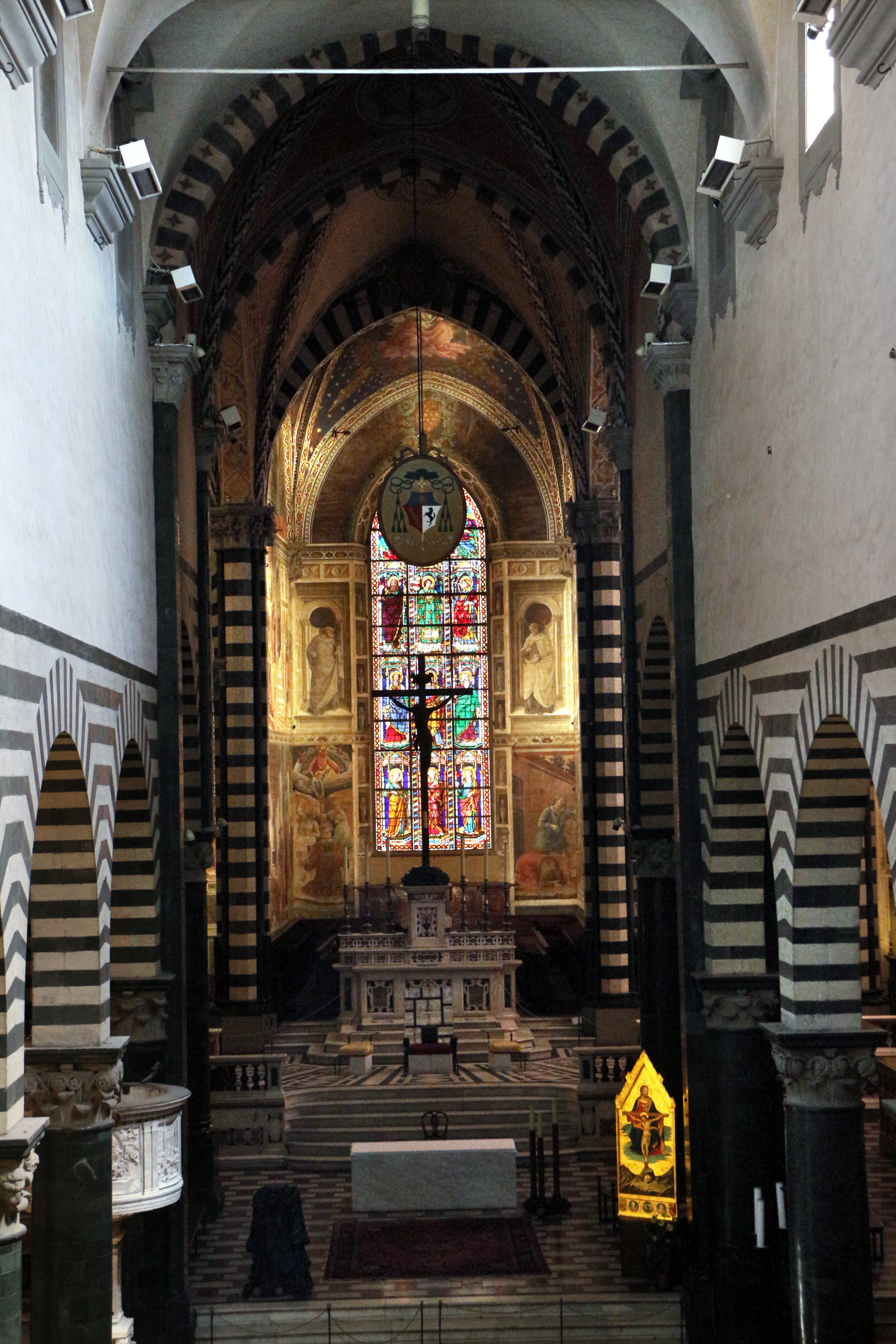 Duomo (Prato)